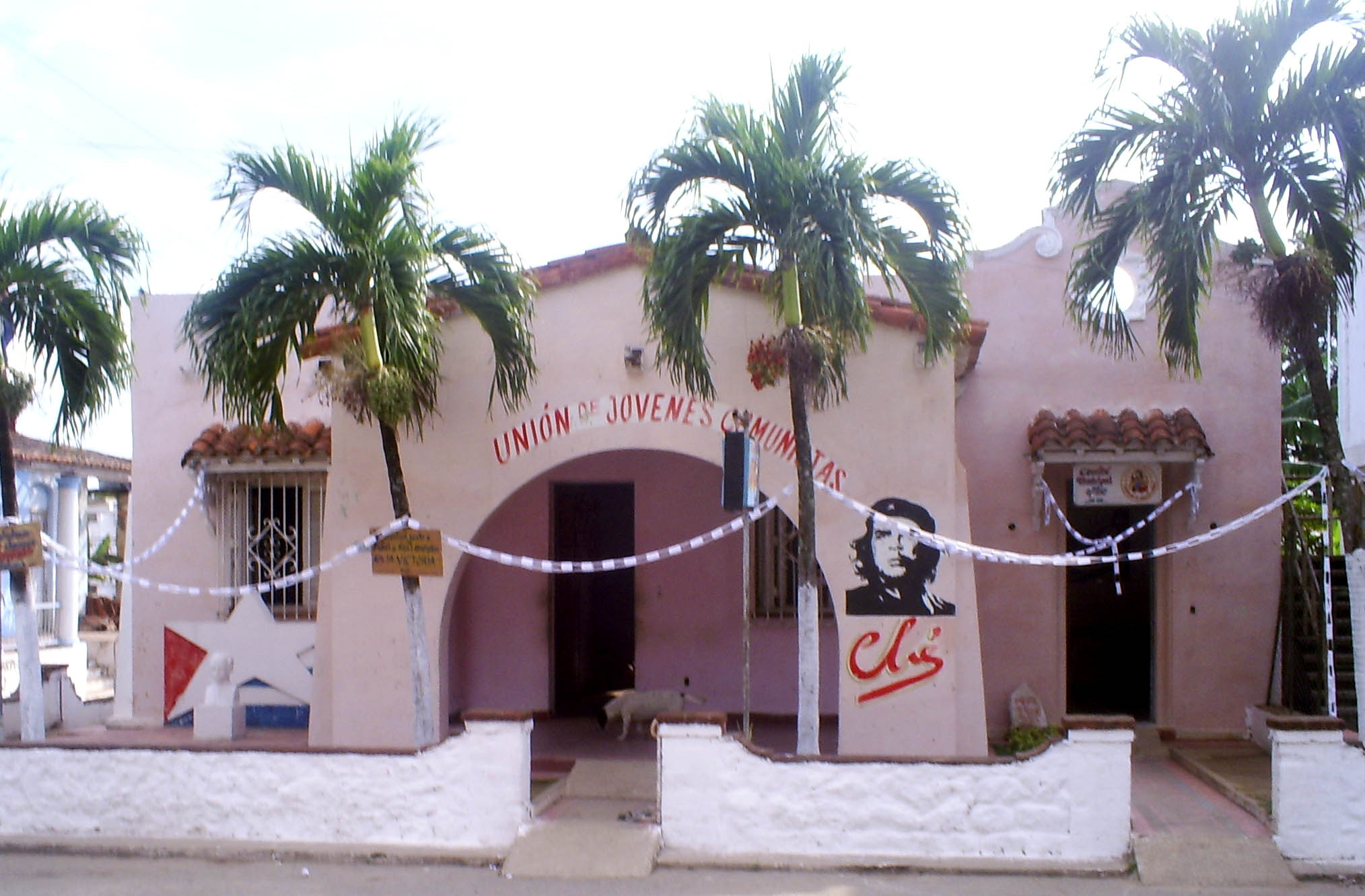 UJC Edifice, in San Luis, Pinar del Río, Cuba